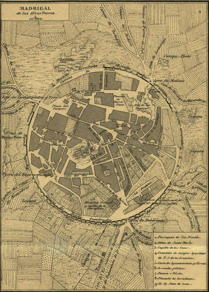 Map of Madrigal de las Altas Torres cropped from the 1864 province of Ávila map by Francisco Coello